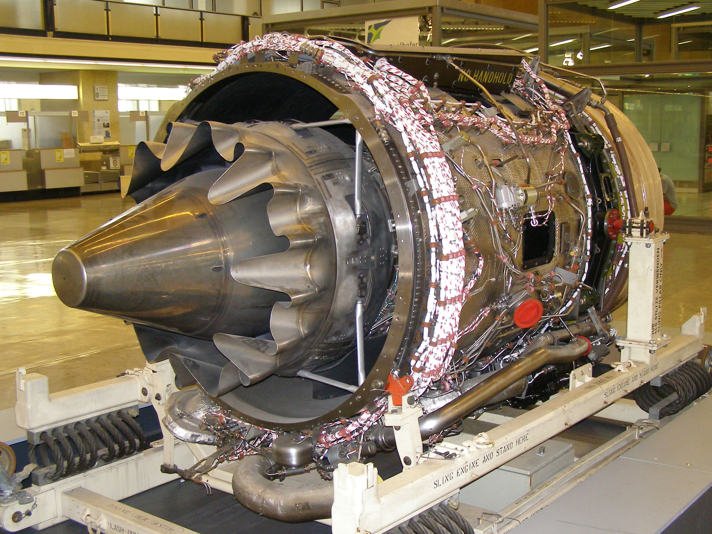 Aircraft engine Rolls-Royce BR710 photographed in the main hall of the Airport Tempelhof, Berlin